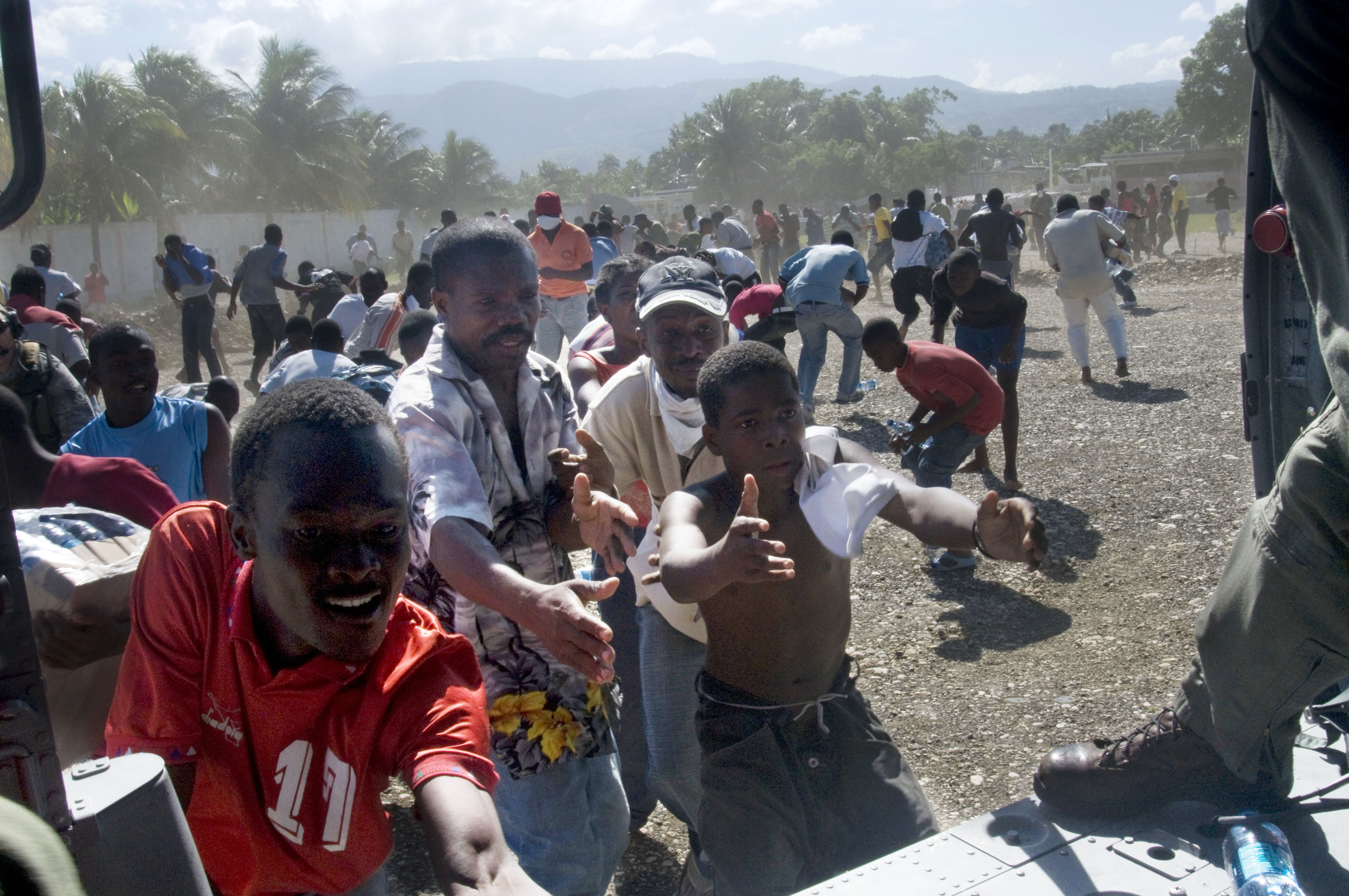 PORT-AU-PRINCE (Jan. 16, 2010) Haitian citizens receive water from U.S. Navy air crewmen from Helicopter Sea Combat Squadron (HSC) 9, assigned to the aircraft carrier USS Carl Vinson (CVN 70). Carl Vinson and Carrier Air Wing (CVW) 17 are conducting humanitarian and disaster relief operations after a 7.0 magnitude earthquake caused severe damage near Port-au-Prince on Jan. 12, 2010. (U.S. Navy photo by Mass Communication Specialist Seaman Aaron Shelley/Released)